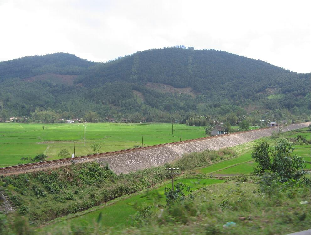 Railway line near Faifo, Quang Nam, Vietnam